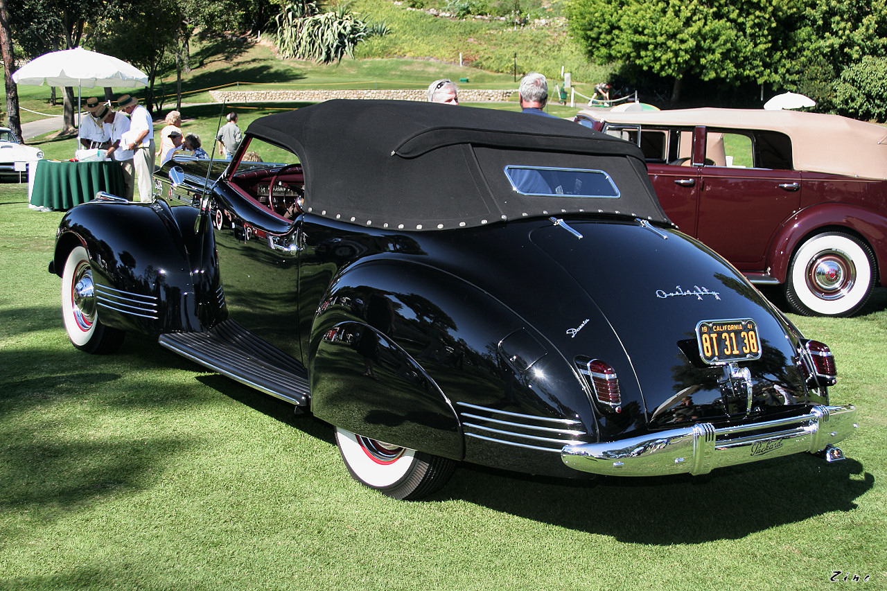 1941 Packard 180 Darrin convertible victoria Rolling Hills Estates Golf Club 2006 Concours Lomita, California